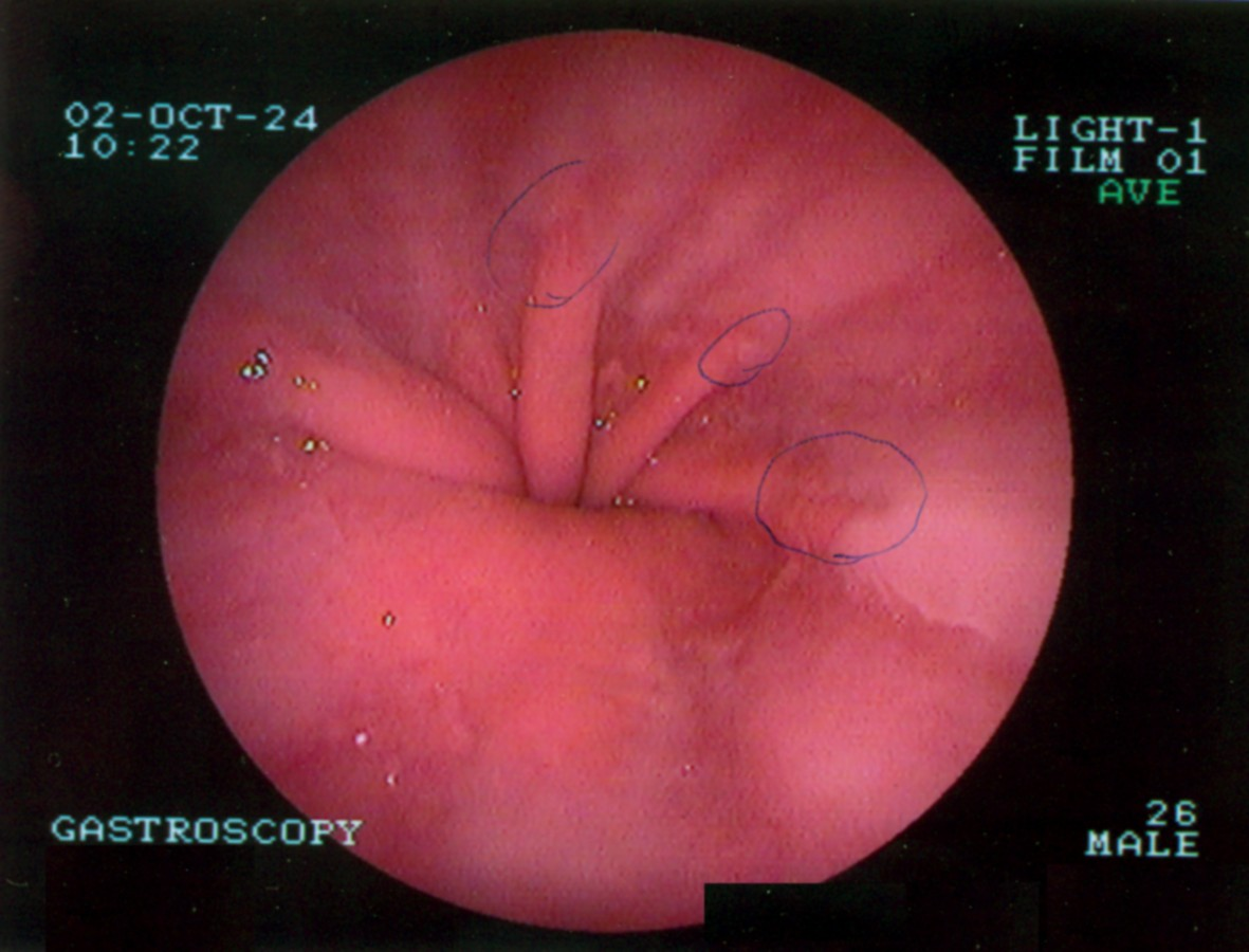 Hiatus hernia.